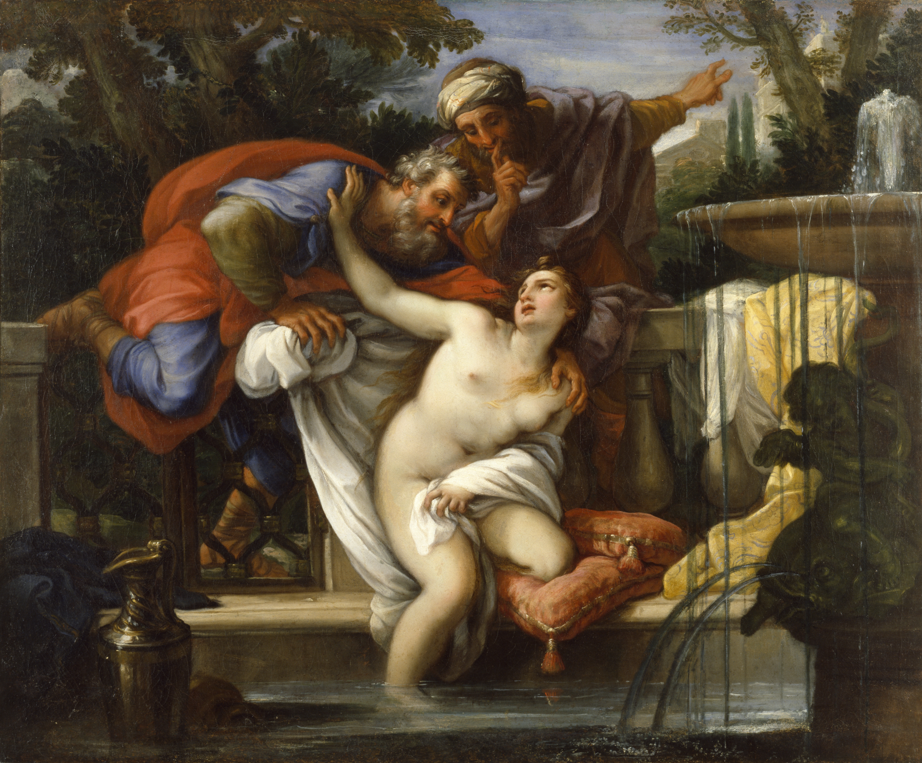 The biblical book of Daniel tells of Susanna, a married woman who is spied upon by two old judges while bathing in her garden. They attempt to force themselves upon her, saying that if she does not submit, they will accuse her of adultery. With Daniel's assistance, Susanna's innocence is established, and the two elders are put to death. This painting depicts the unhappy woman as she tries to escape the advances and gazes of the men. The focus on her body testifies to her innocence and virtue, as truth was often symbolized by a nude woman, but was also meant to appeal to male patrons. The soft, luminous coloring is characteristic of the late Roman baroque style.